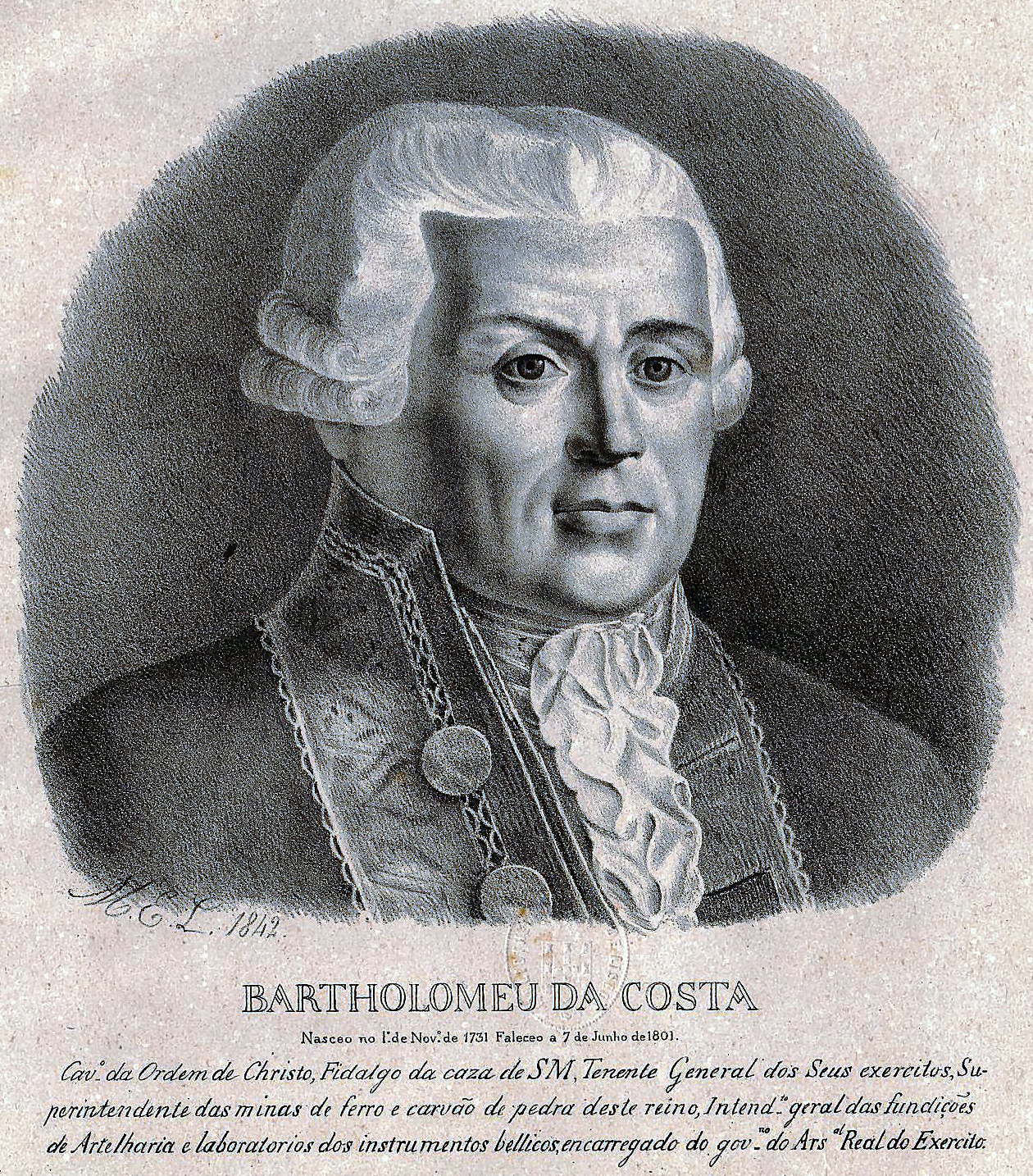 Bartolomeu da Costa (1731–1801), Portuguese millitary engineer.